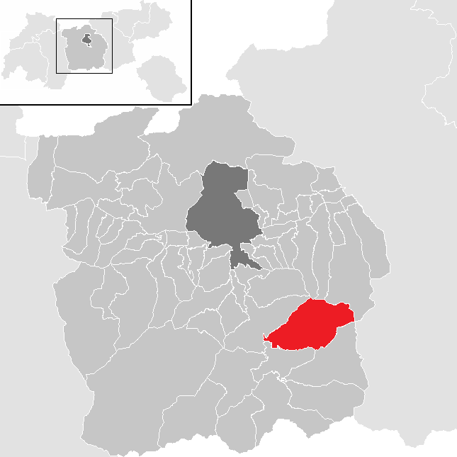 District Innsbruck Land